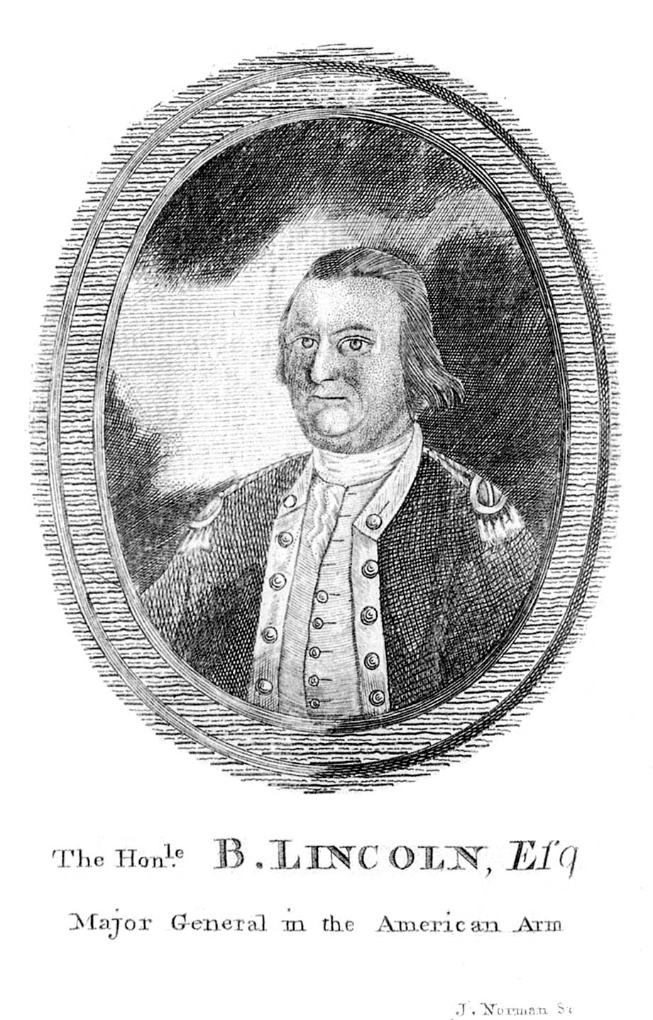 The honle. B. Lincoln, Esq., major general in the American Army. Etching shows Benjamin Lincoln, head-and-shoulders portrait, facing slightly left, wearing military uniform; in oval.